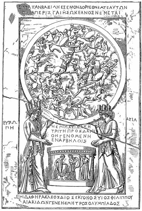 19th century engraving of a decorative Neo-Attic relief from Rome, Pal. Chigi (2nd century BC-2nd century CE). Europe and Asia in an allegory about Alexander's conquests.